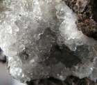 Gmelinit,_kamieniołom_Magheramourne,_Larne,_Antrim_Co.,_Irlandia_Pn; autor zdjęcia Paleonet; 10.12.2006r.